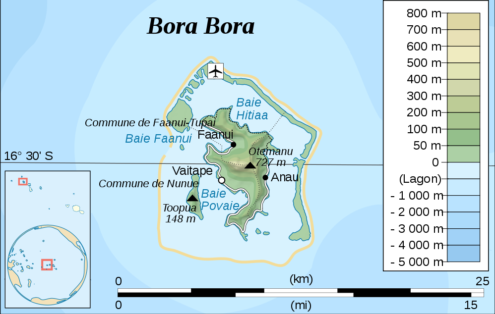 Topographic map of Bora Bora, Society Islands, French Polynesia